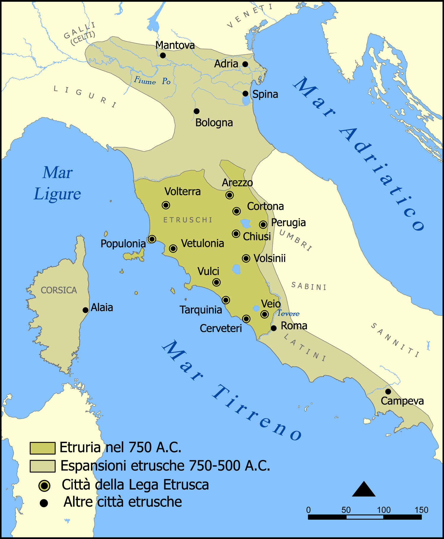 Italian version of a map showing the extent of Etruria and the Etruscan civilization. The map includes the 12 cities of the Etruscan League and notable cities founded by the Etruscans.